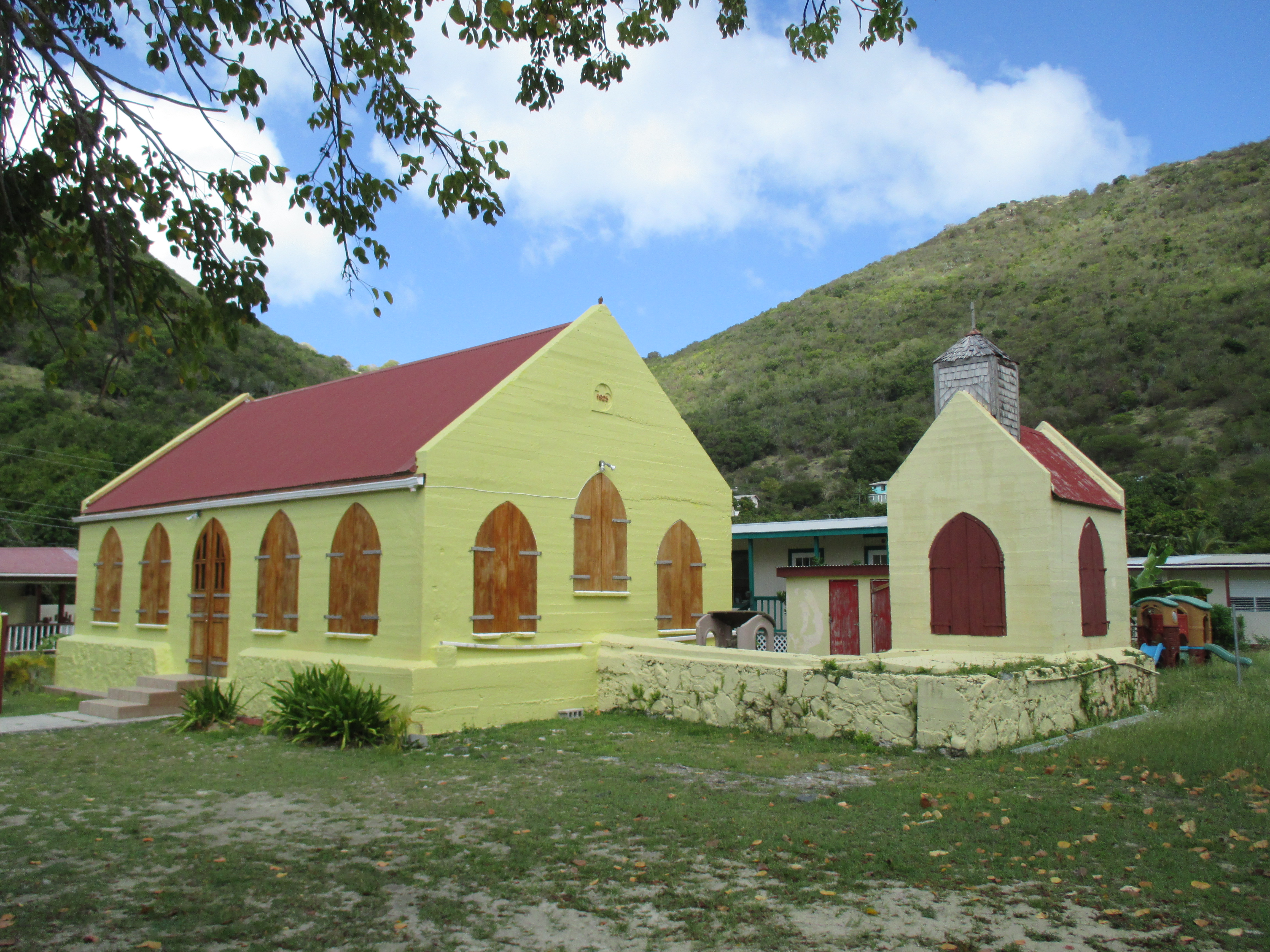 Methodist Church